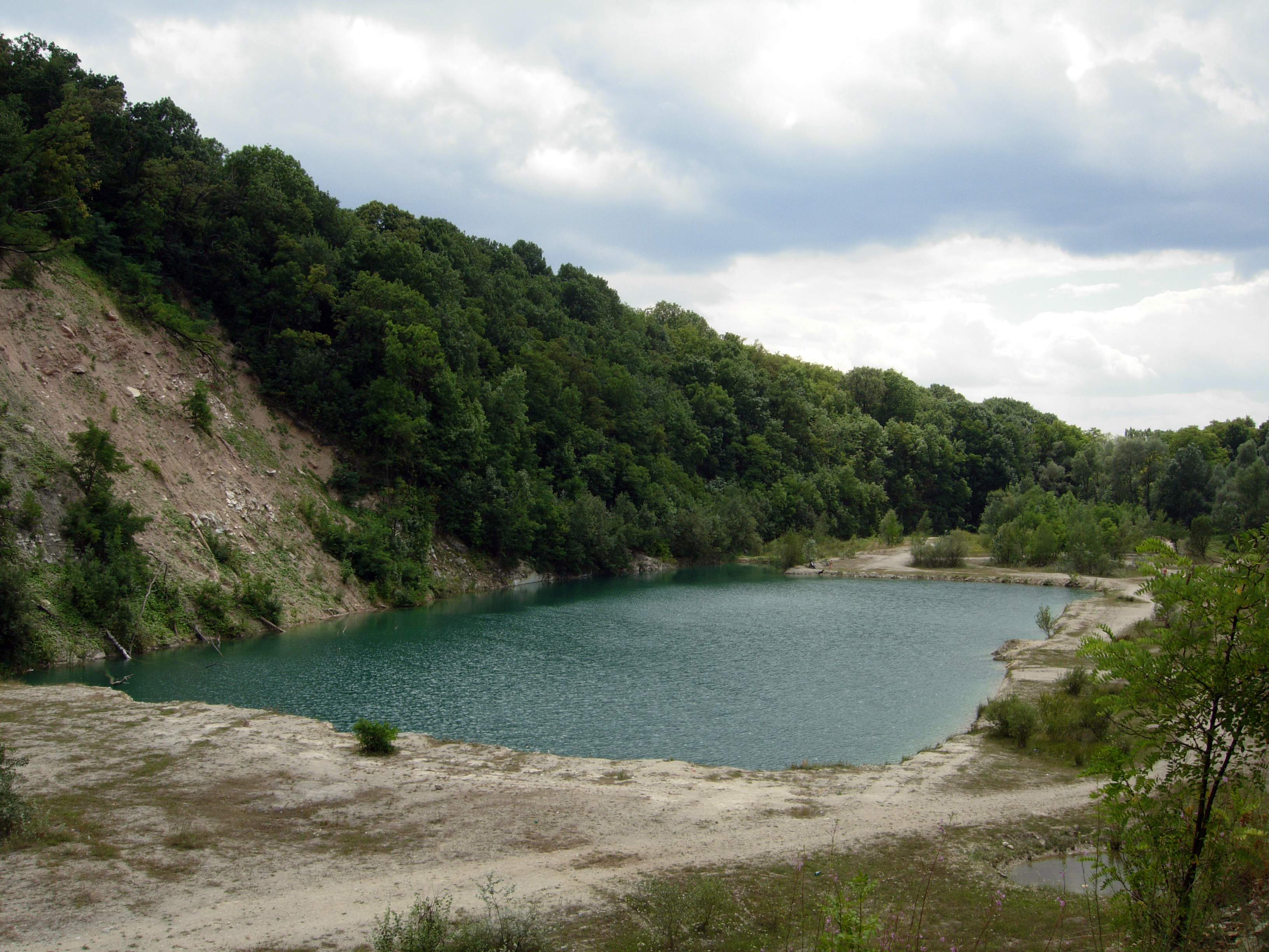 Open-pit mining Kurovice, Kurovice, Czech Republic Česky: Kurovický lom, Kurovice, Česká republika